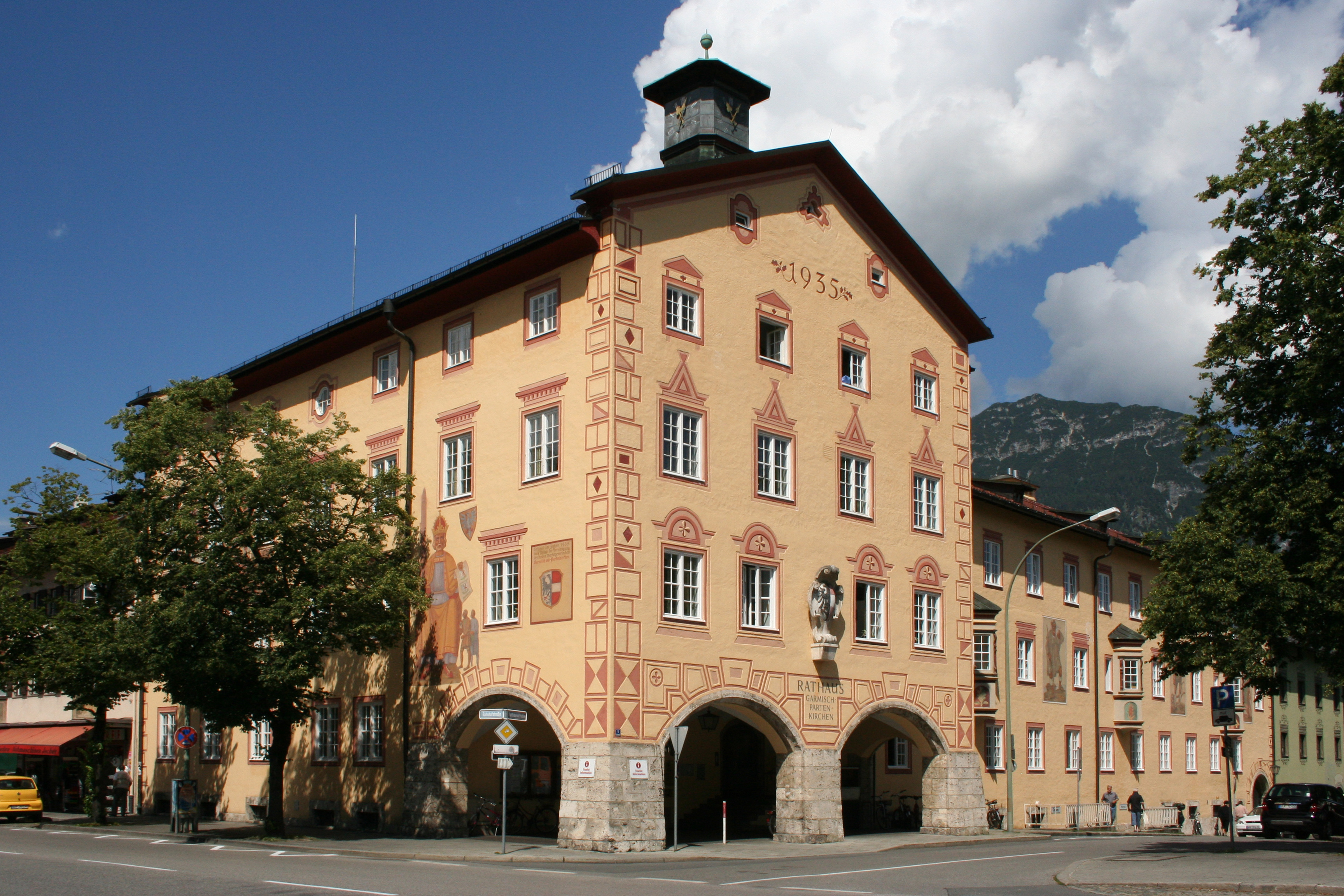 Garmisch-Partenkirchen town hall